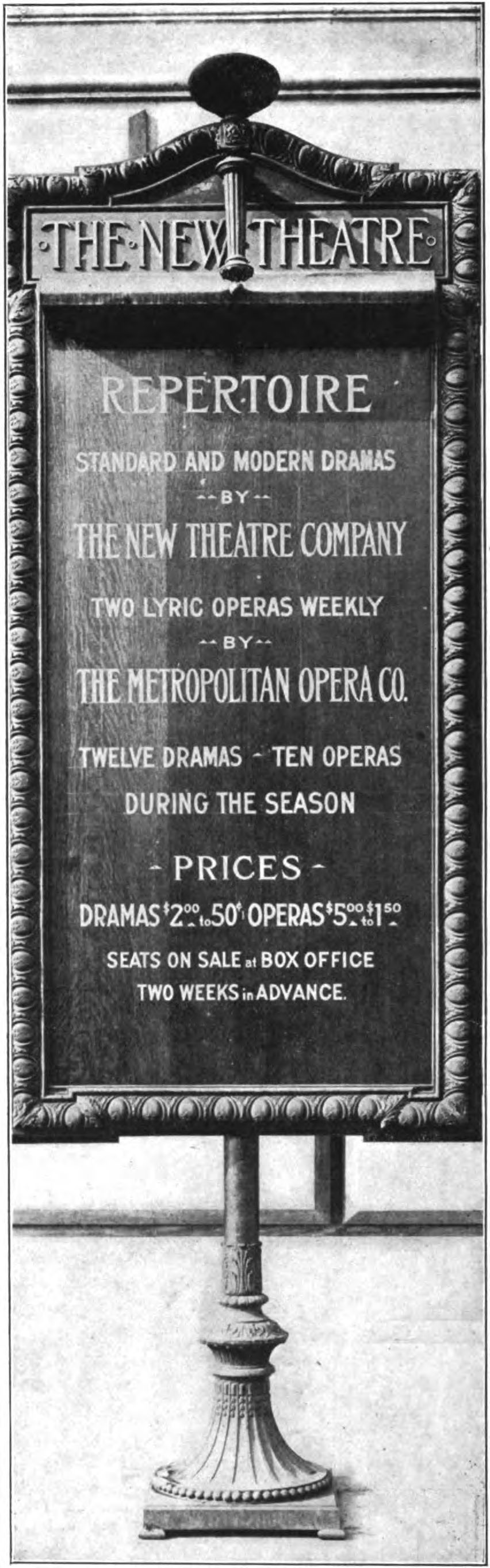 Free-standing poster case with poster announcing the first (1909) season of the New Theatre on Central Park West in New York City.